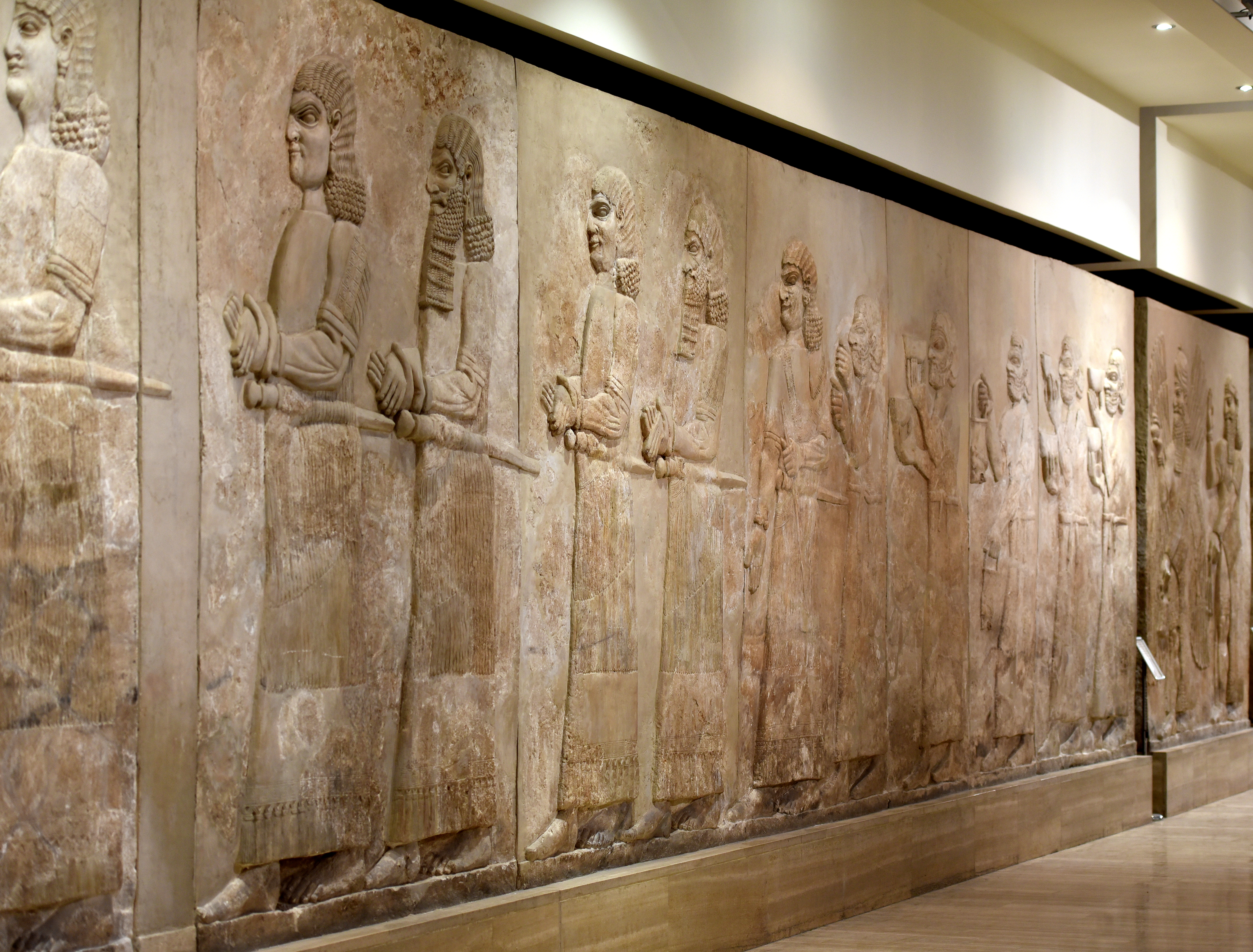 A procession of high-ranking Assyrian officials and heads of state followed by tribute bearers from Urartu. At the rear, we can see a human-headed and winged Apkallu. About 3-meters high, alabaster bas-reliefs. From The Royal Palace of Sargon II at Khorsabad, Iraq. Circa 710 BCE. On display at the Assyrian Gallery of the Iraq Museum in Baghdad, Iraq.